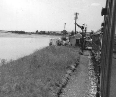 On the Ilfracombe branchline on 04 May 1969. Taken near Barnstaple Town station at the site of the old quay station.